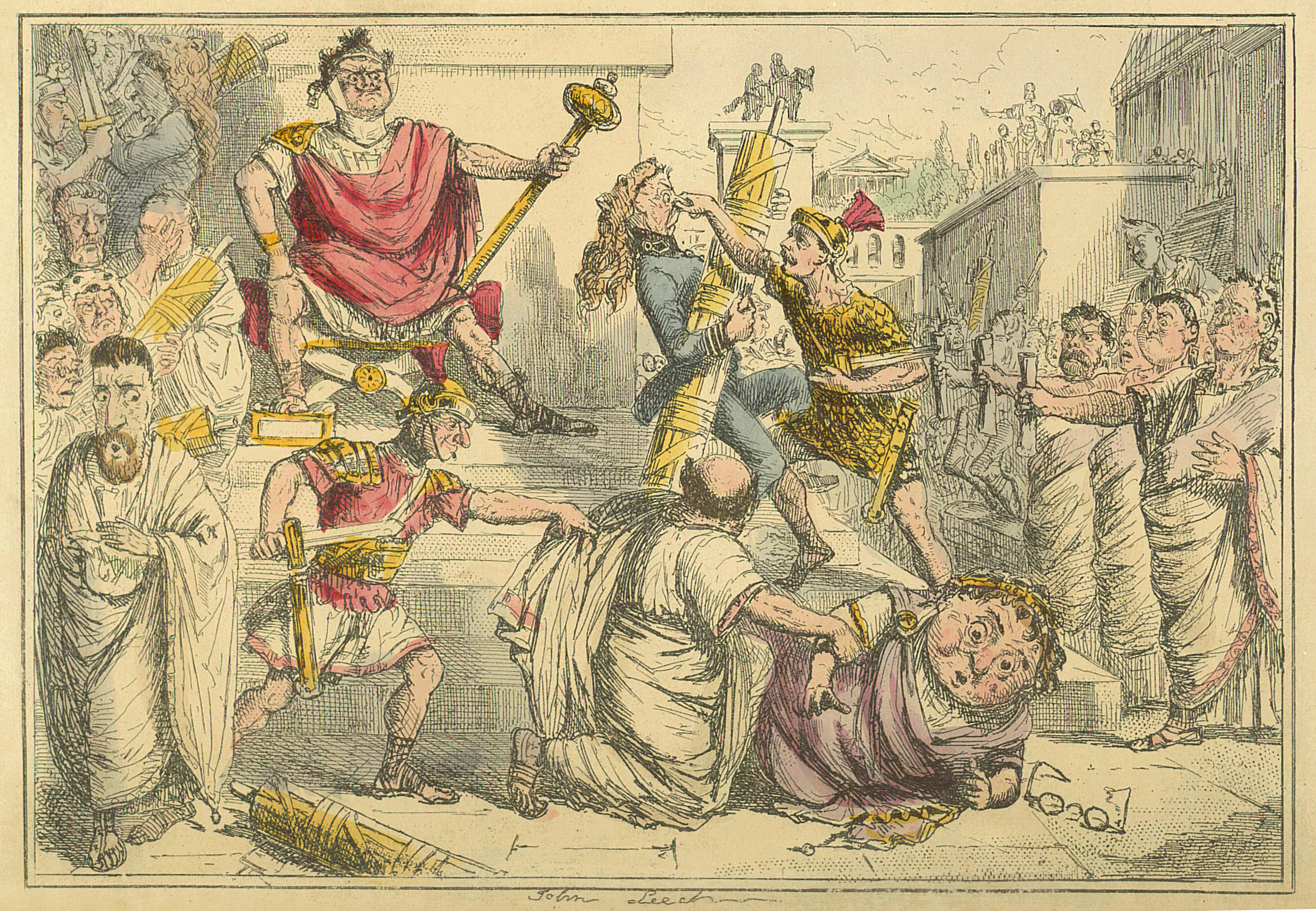 Image by John Leech, from: The Comic History of Rome by Gilbert Abbott A Beckett. Bradbury, Evans & Co, London, 1850s Tarquinius Superbus makes himself King